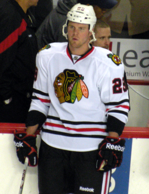 Chicago Blackhawks forward Bryan Bickell prior to a National Hockey League game against the Calgary Flames.